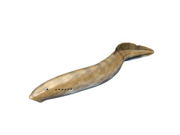 Mayomyzon pickoensis